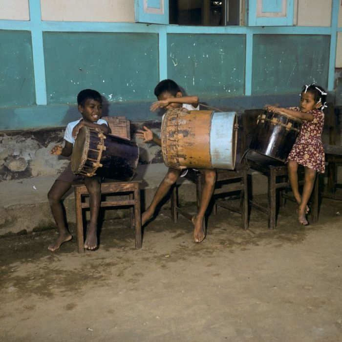 Children playing drums at Amahusu